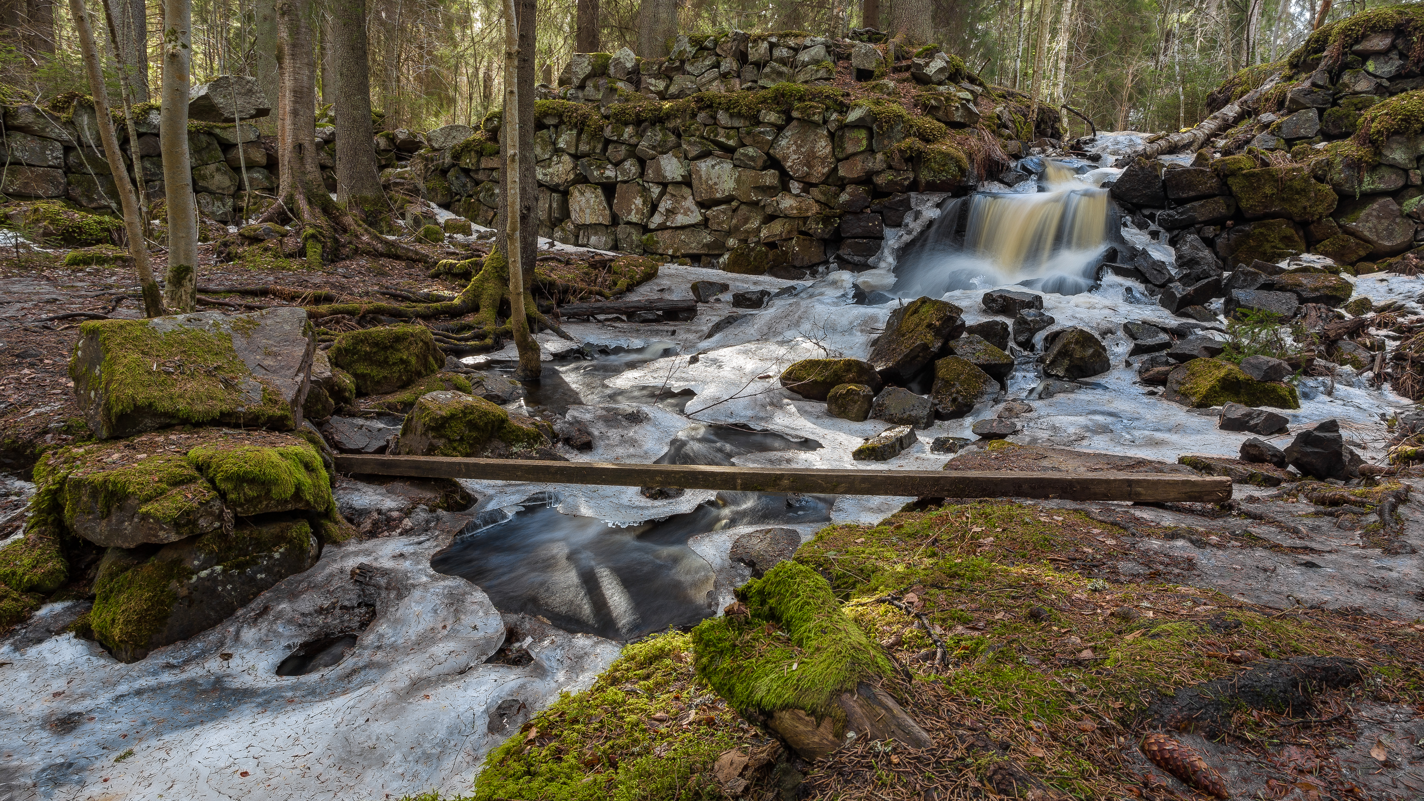 Stream Bjurforsbäcken at the ruins of Bjurfors brass foundry (1666–1835), at the border between Norberg Municipality, Västmanland County and Avesta Municipality, Dalarna County, Sweden. The stream with surroundings is a municipal nature reserve in Avesta Municipality, because of fauna, geomorphology and recreation values (popular trail walking area). Tone mapped by 3 exposures.